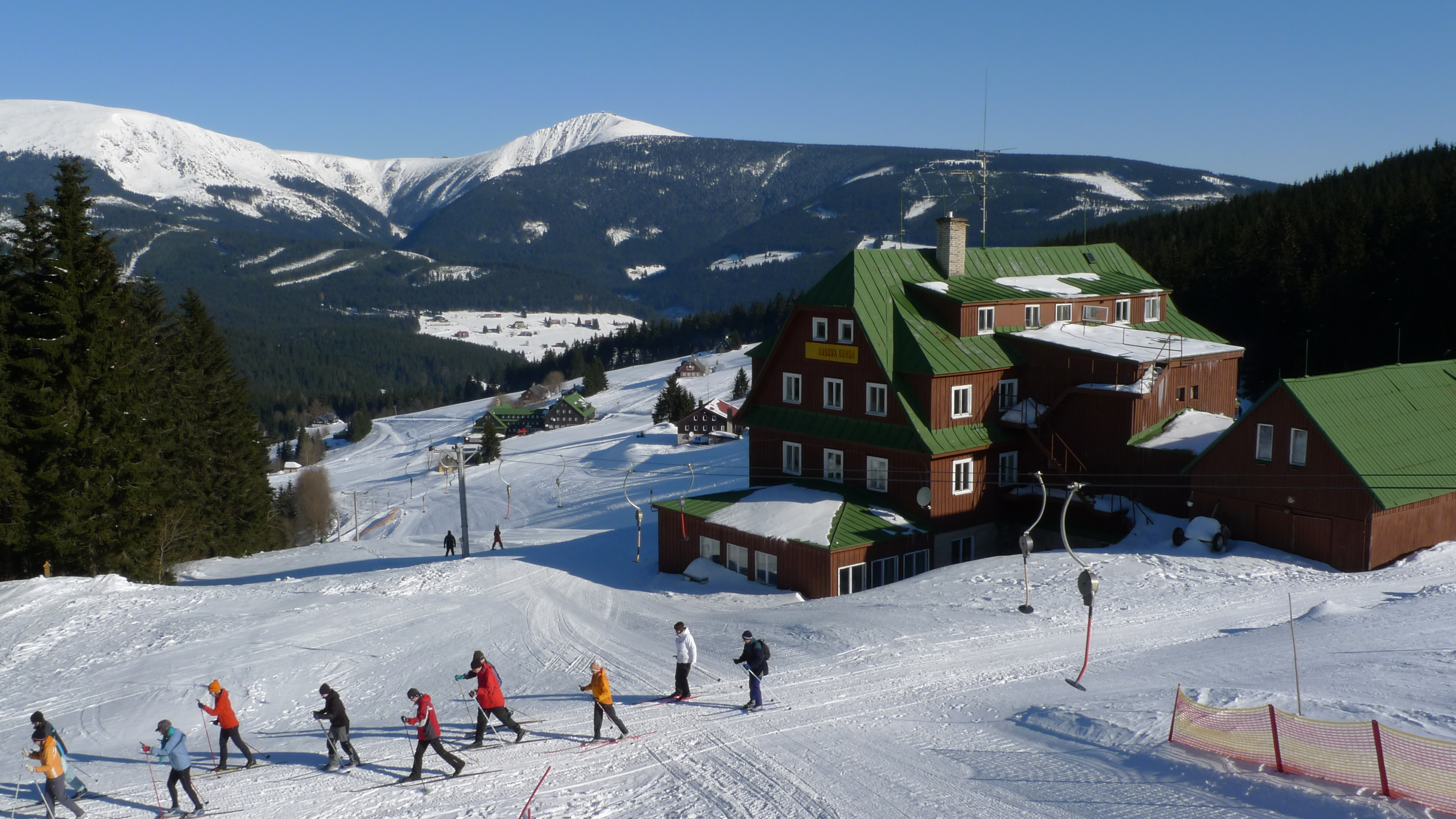 Husova bouda in Krkonoše Mountains, Czech Republic Česky: Husova bouda v Krkonoších v zimě